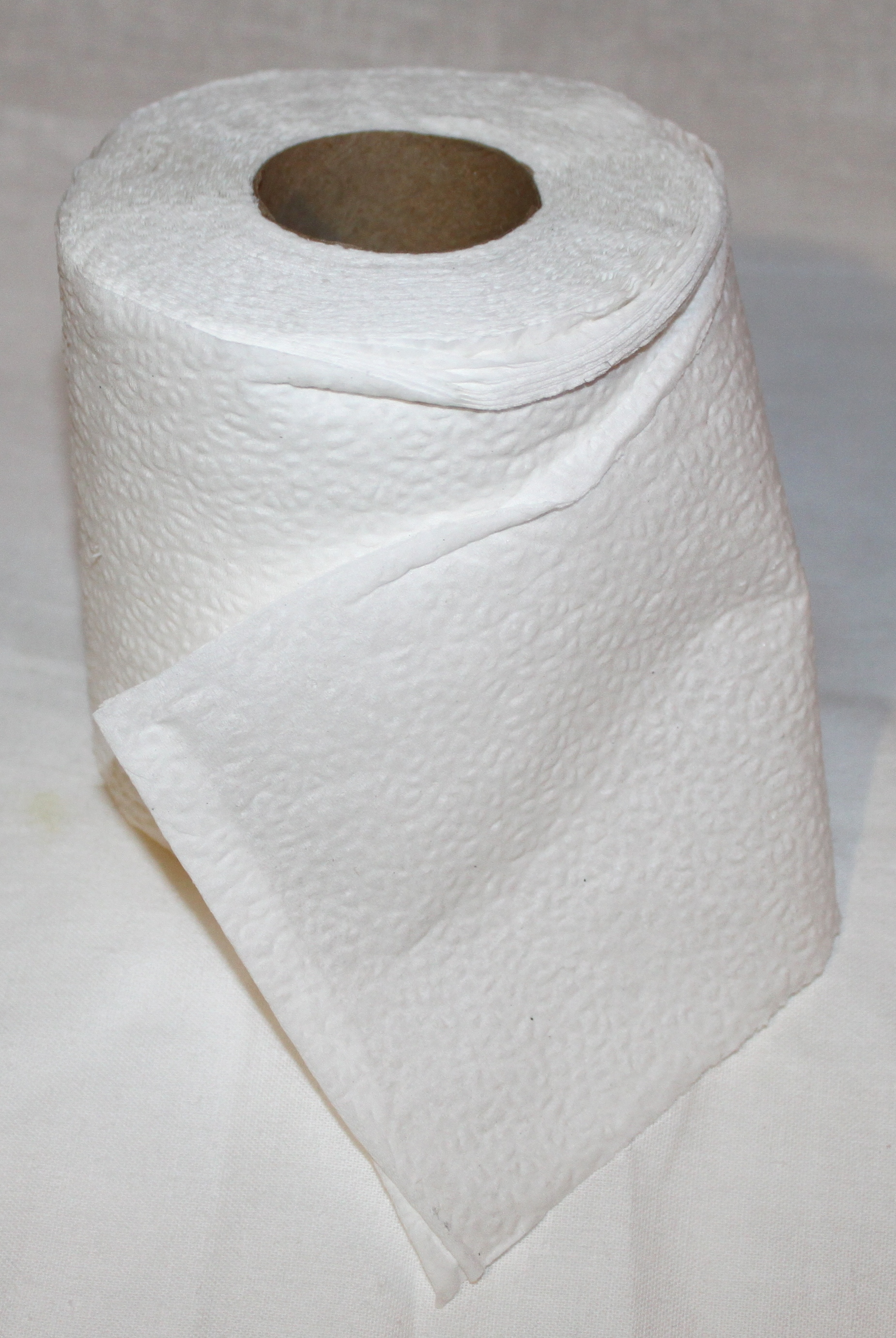 A roll of toilet paper.